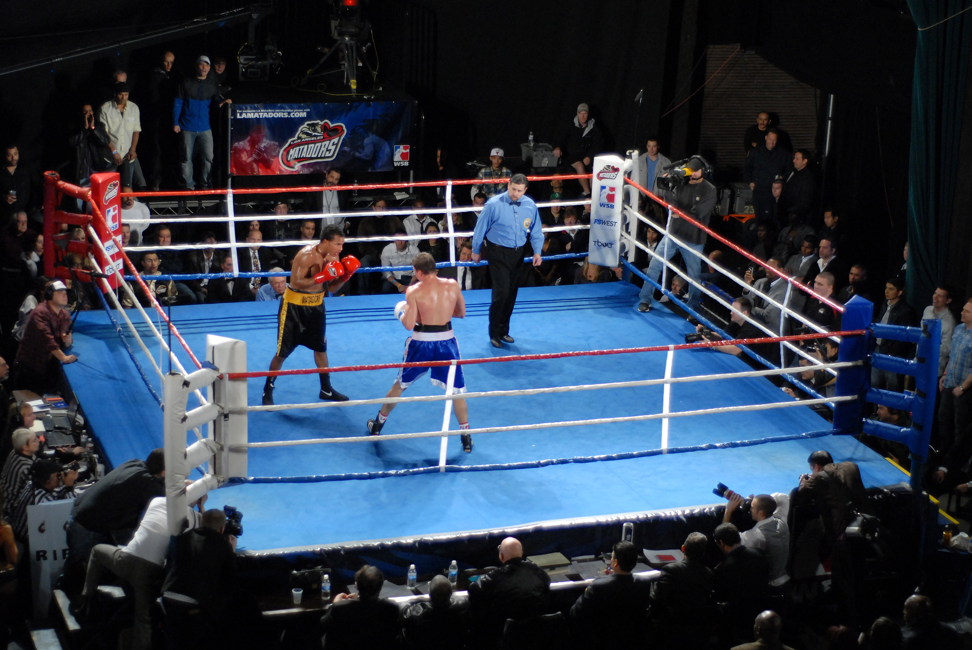 World Series Boxing - Los Angeles Matadors vs. Moscow Dynamo, Hollywood, CA on December 4, 2011 - Photo by Glenn Francis of